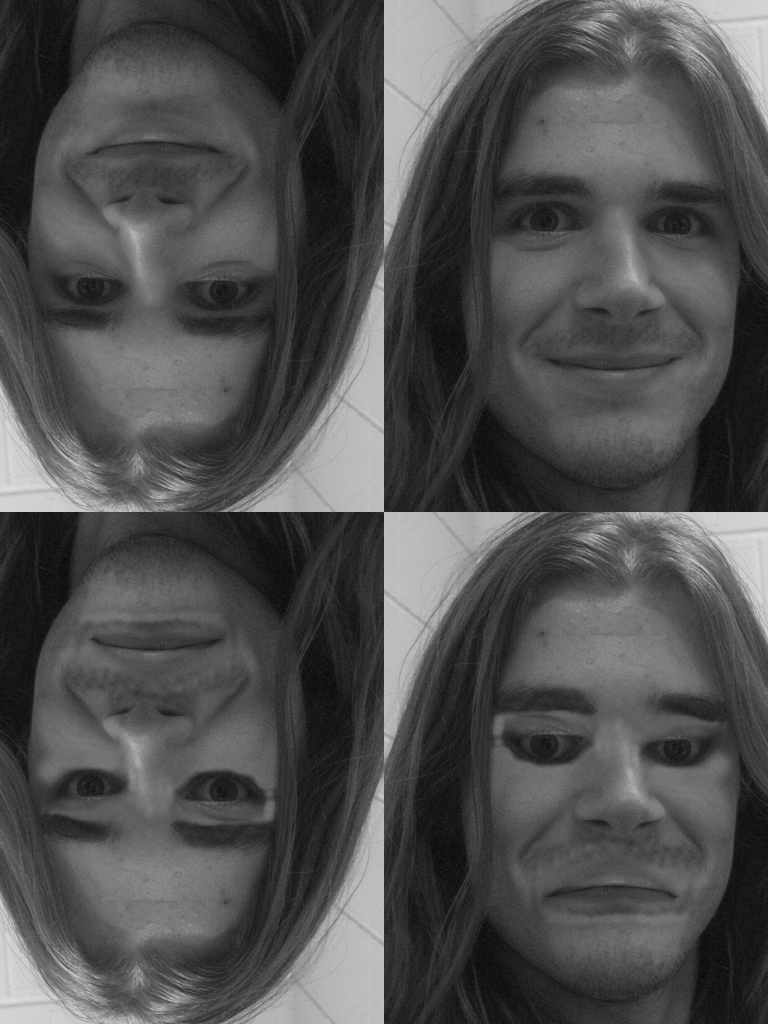 Illustration of the Thatcher effect, taken with a PowerShot SD500 with flash on. Post-production done in Adobe Photoshop. The model is Iain Hartley, and the photo was taken on October 4th, 2006.